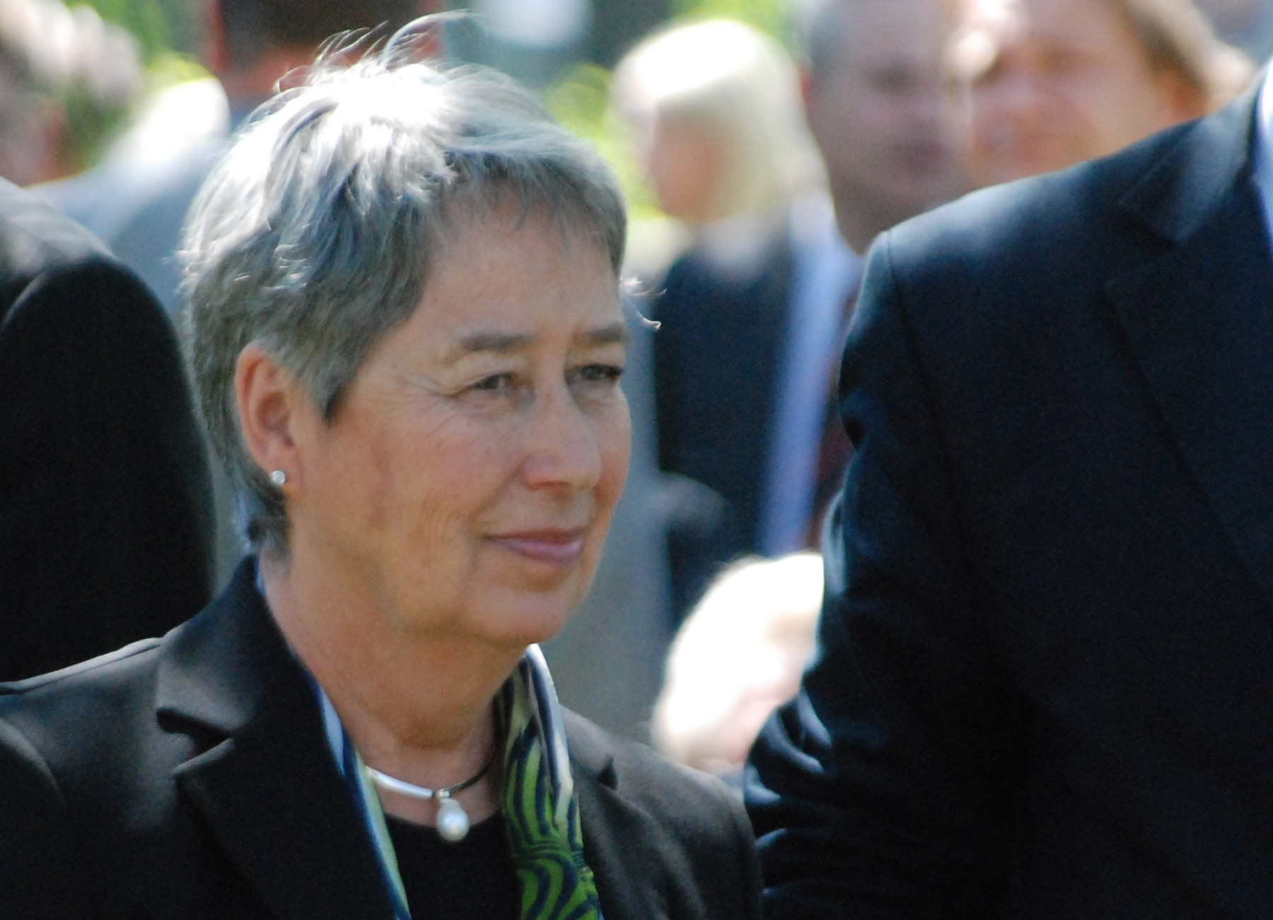 Margit Fischer at the funeral of victims of Nazi medicine at the Central Cemetery in Vienna.